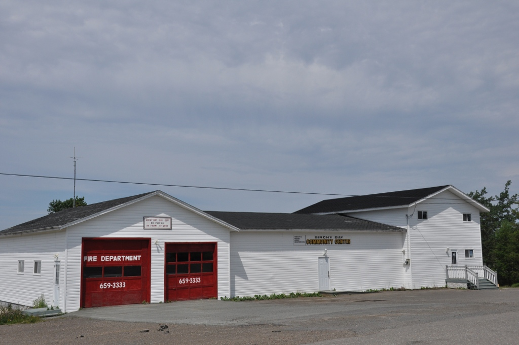 The community building in Birchy Bay, Newfoundland and Labrador.